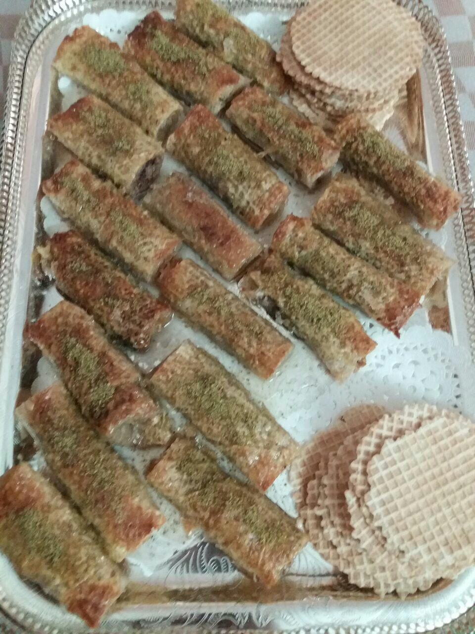 Rishta Khatai dessert of Tabriz